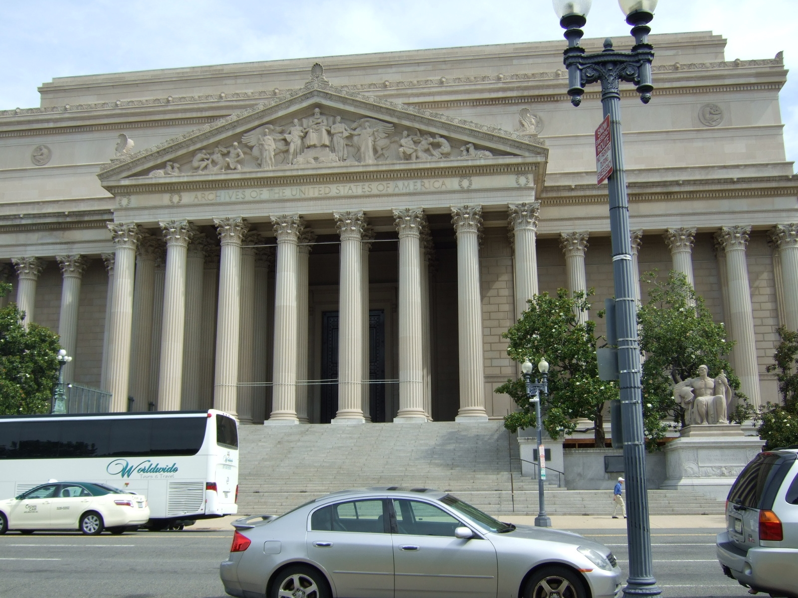 The National Archives Building from Constitution Ave